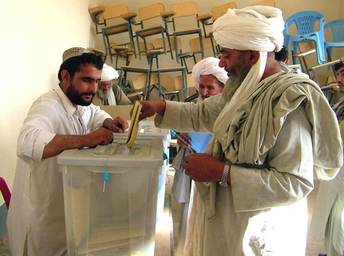 An Afghan man casts his ballot at a polling station in Lash Kar Gah, Helmand Province, September 18, 2005. Polling stations were busy, but orderly, across the city.